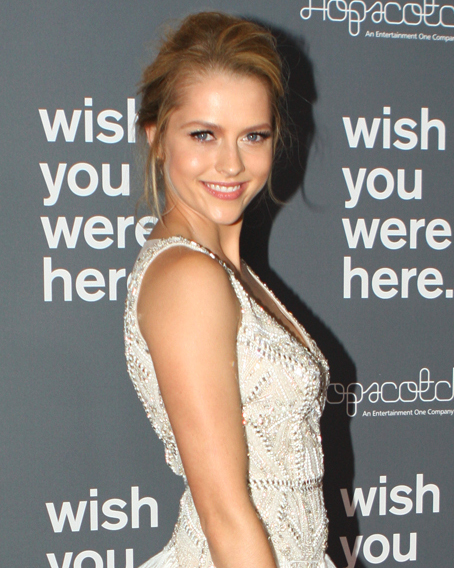 Teresa Palmer at the Wish You Were Here; Australian Premiere 2012.